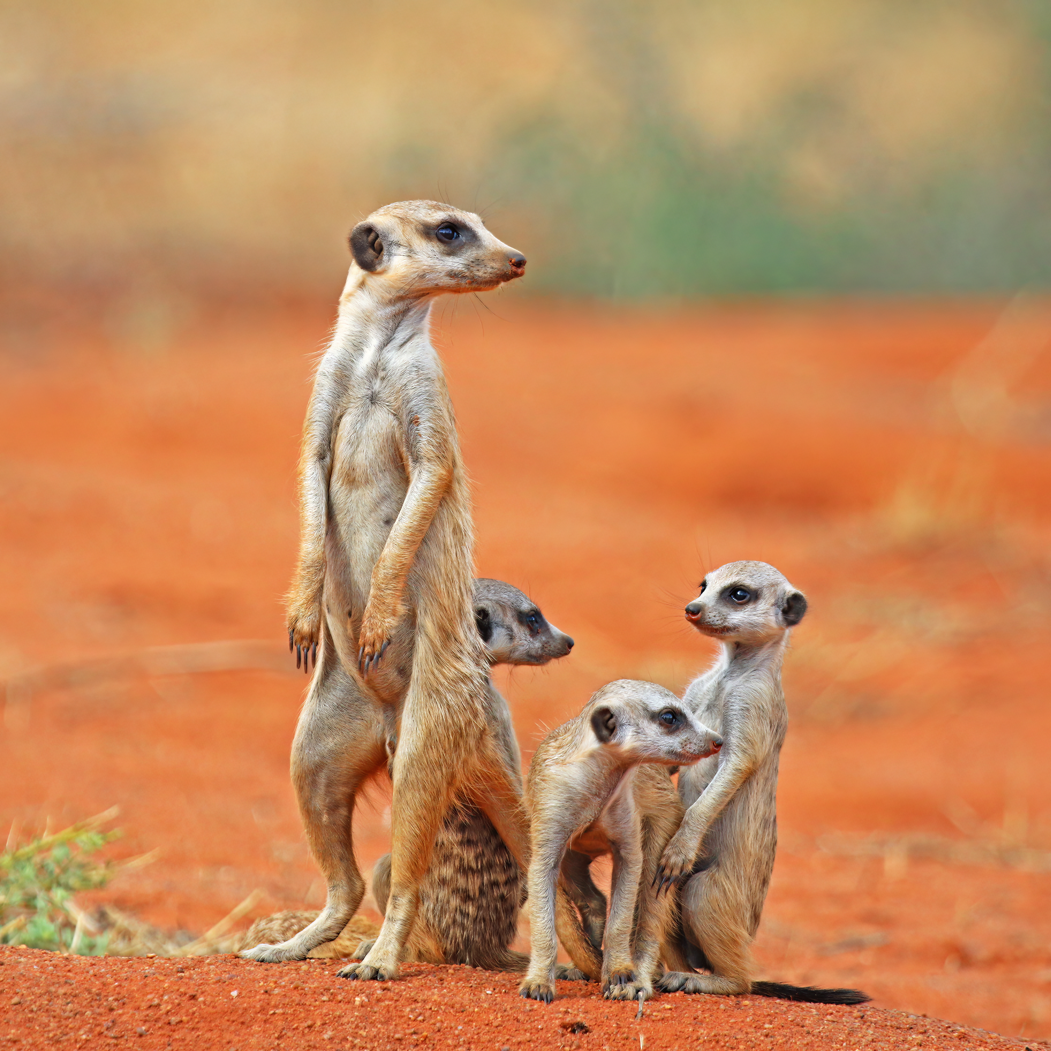 Meerkat (Suricata suricatta) with 3 young, Tswalu Kalahari Reserve, South Africa